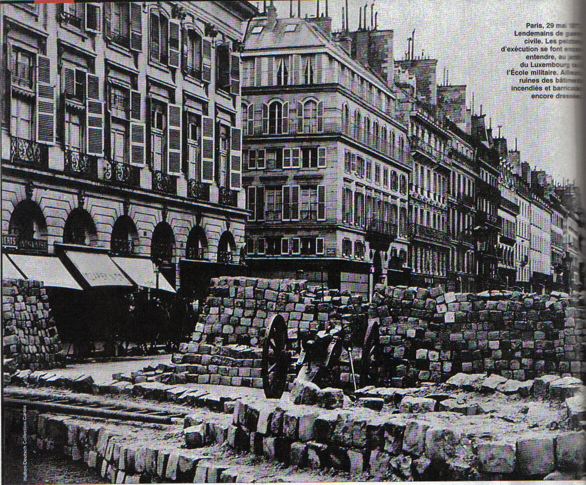 Paris Commune. Photo taken on May 29, 1871, after the "Semaine sanglante" (Bloody Week) (published in L'Histoire, July-August 2006). The legend on the pictures says: « Paris 29 mai 1871. Lendemains de guerre civile. Les pelotons d'exécution se font encore entendre au Jardin du Luxembourg et à l'École militaire. Ailleurs, ruines des bâtiments incendiés et barricades encore dressées. »